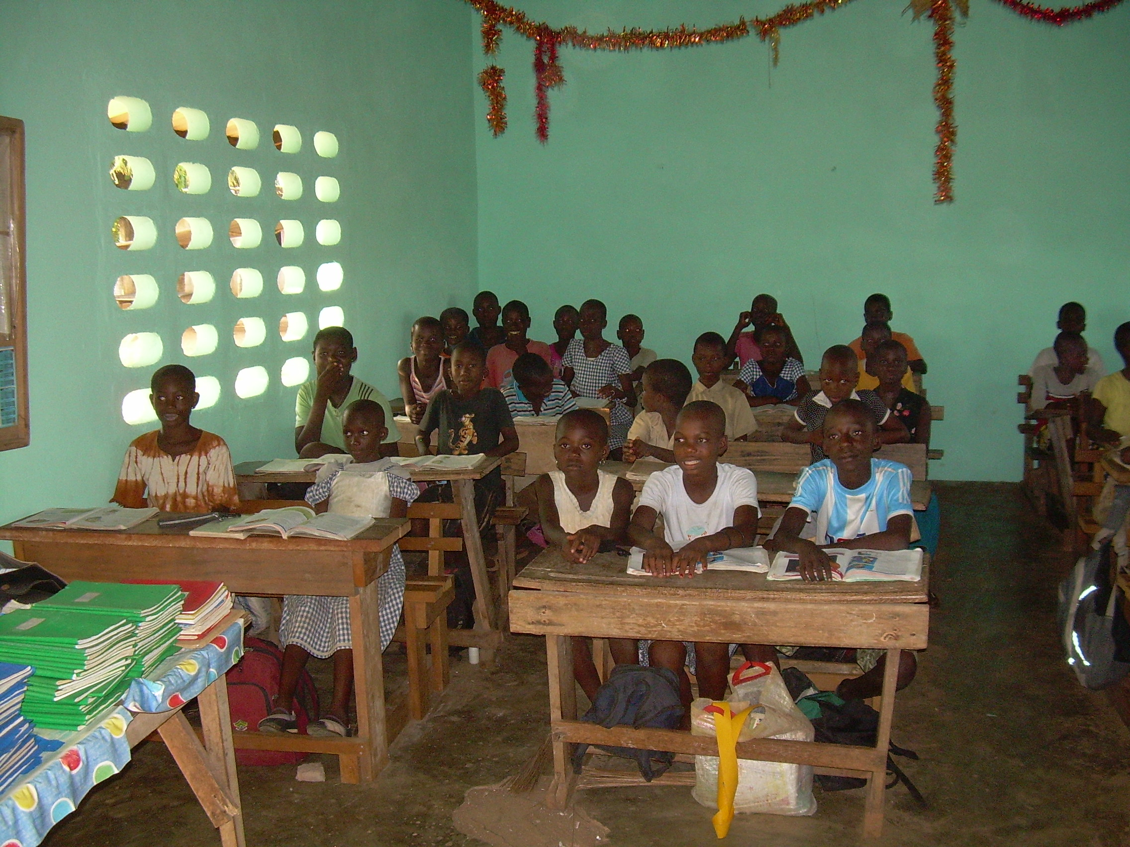 Children in a school in Côte d'Ivoire - 20090420